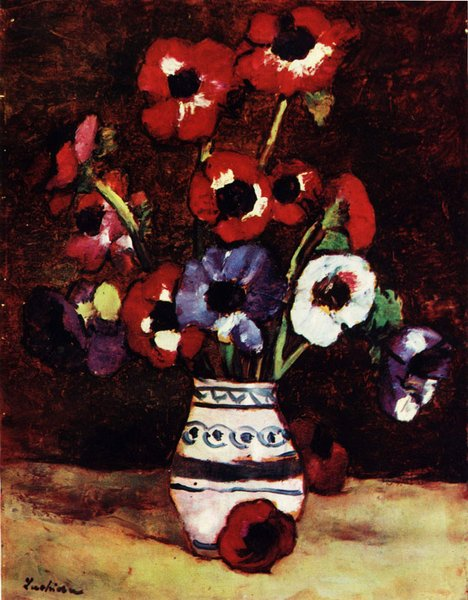 Anemones - oil on canvas